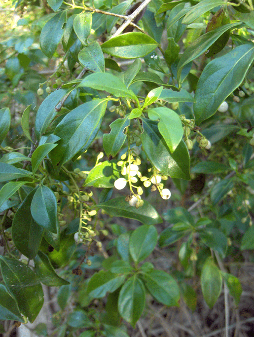 Snowberry